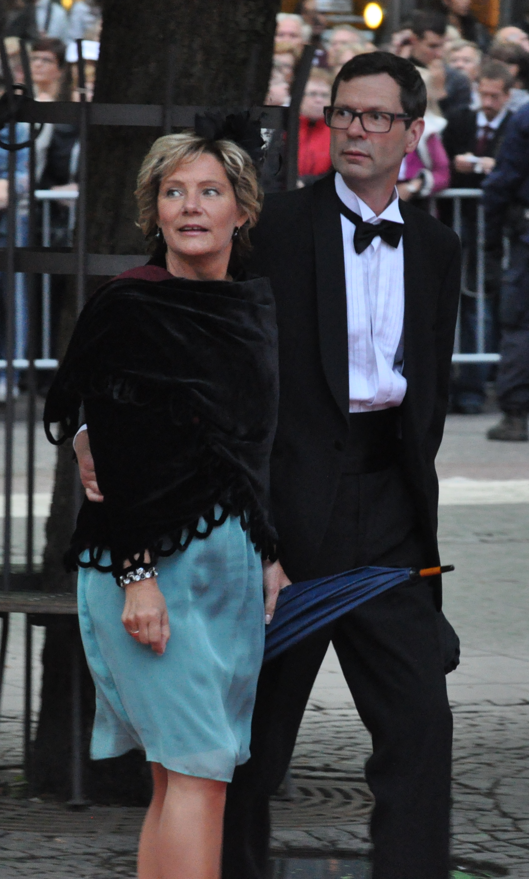 Wedding of Victoria, Crown Princess of Sweden, and Daniel Westling; Arrival of members for the Gouvernment and Swedish and foreign guests of hounour to the Riksdag's Gala Performance at Konserthuset